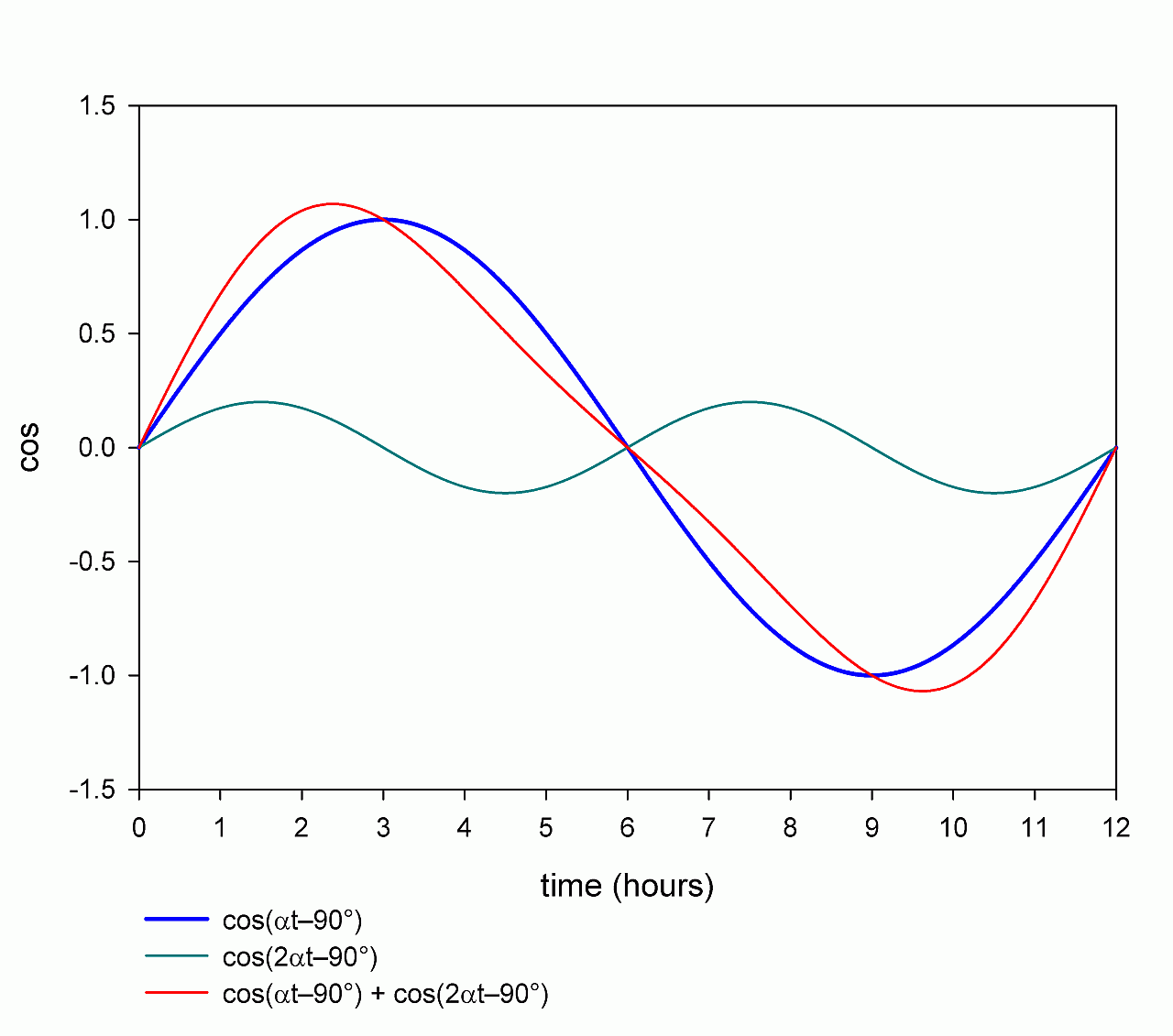 The sum of a cosine and a cosine of dubble the speed, as in a tidal constituent that enters shallow water